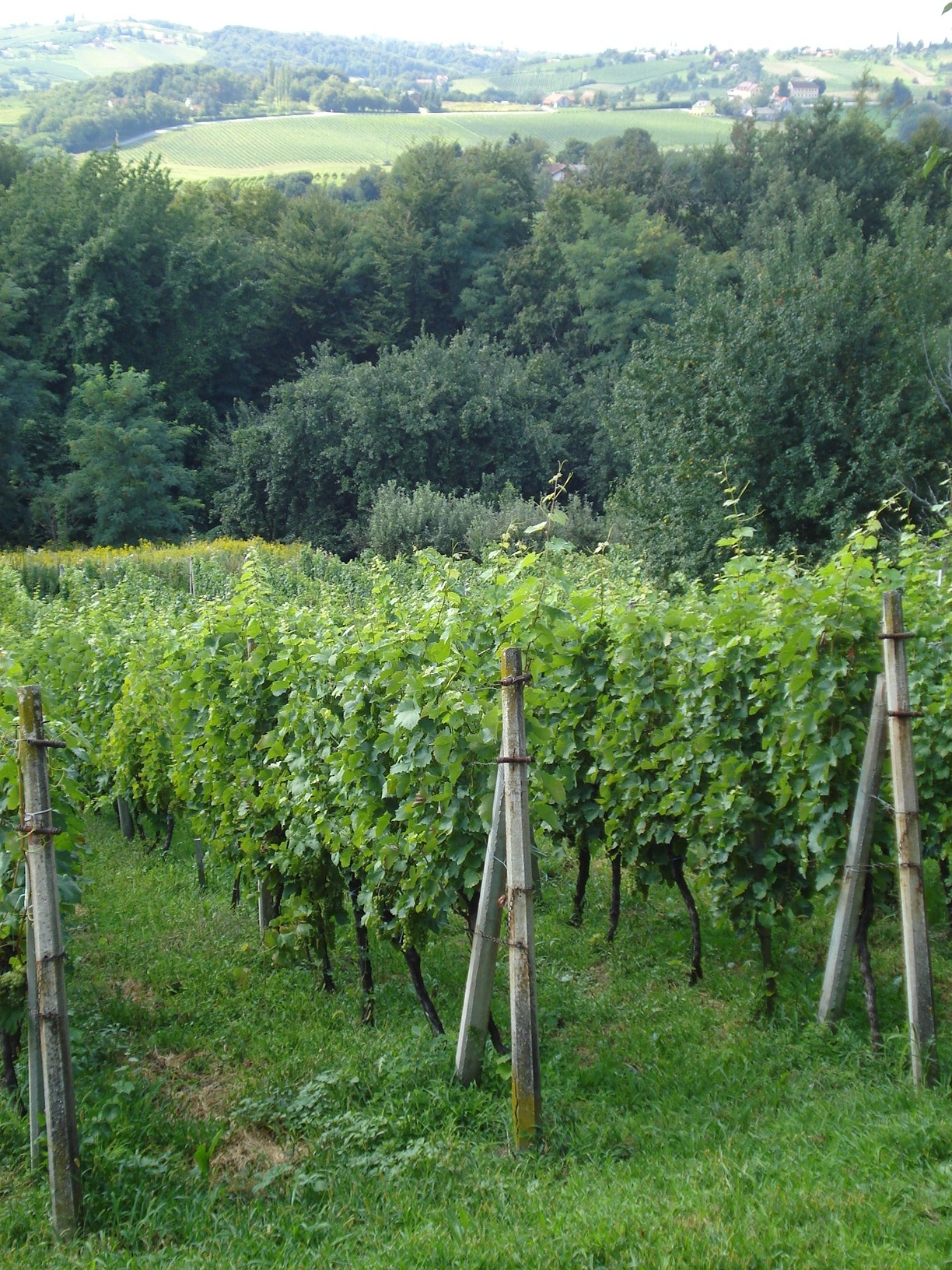 "Međimurske gorice" - Vineyard in Međimurje wine subregion, northern Croatia